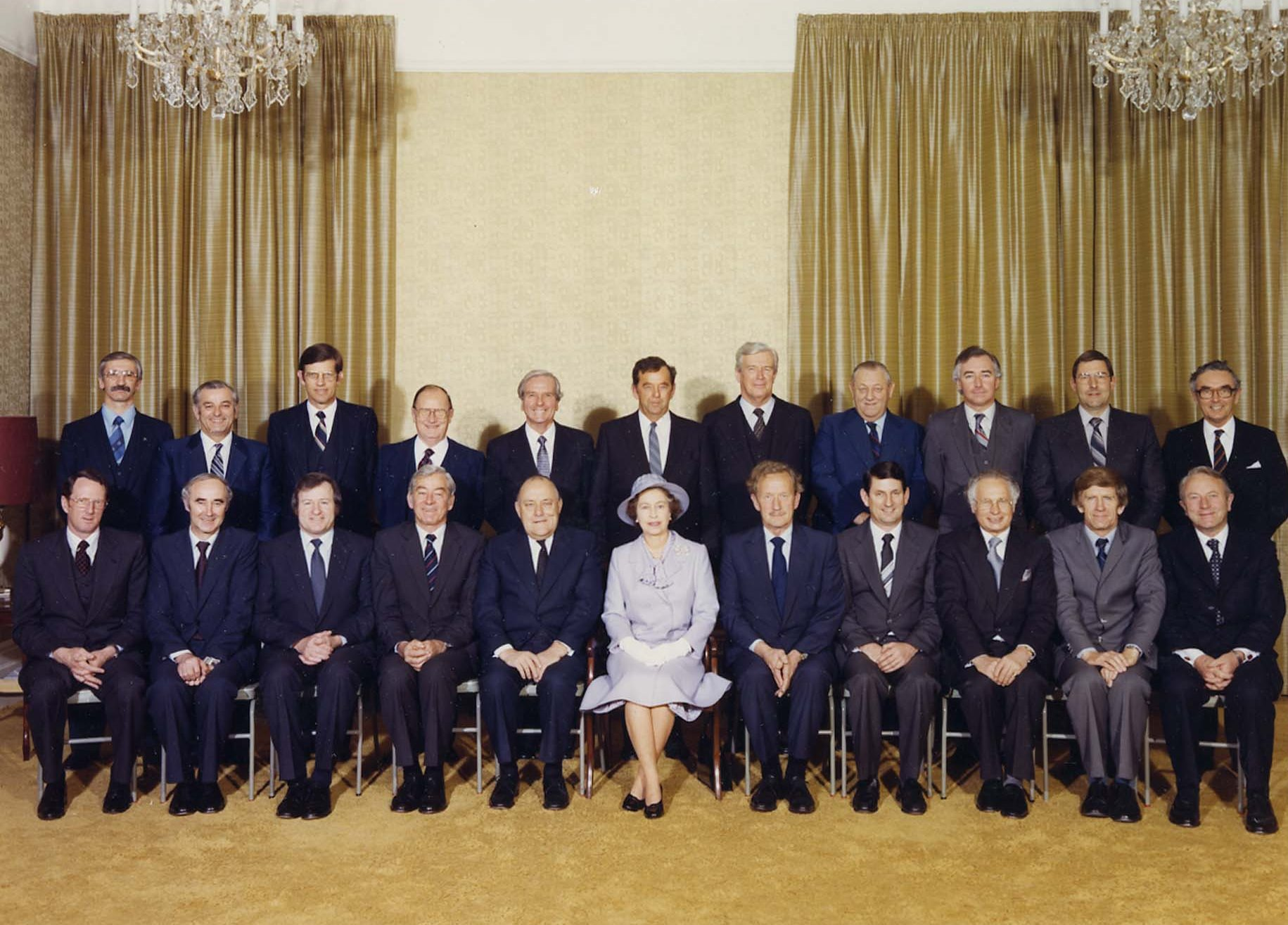 The photograph is a picture of Queen Elizabeth II and the New Zealand Cabinet, taken during the 1981 tour. New Zealand Prime Minister Robert Muldoon is seated to the right of the Queen. A future New Zealand Prime Minister, Jim Bolger is also seen in this picture.